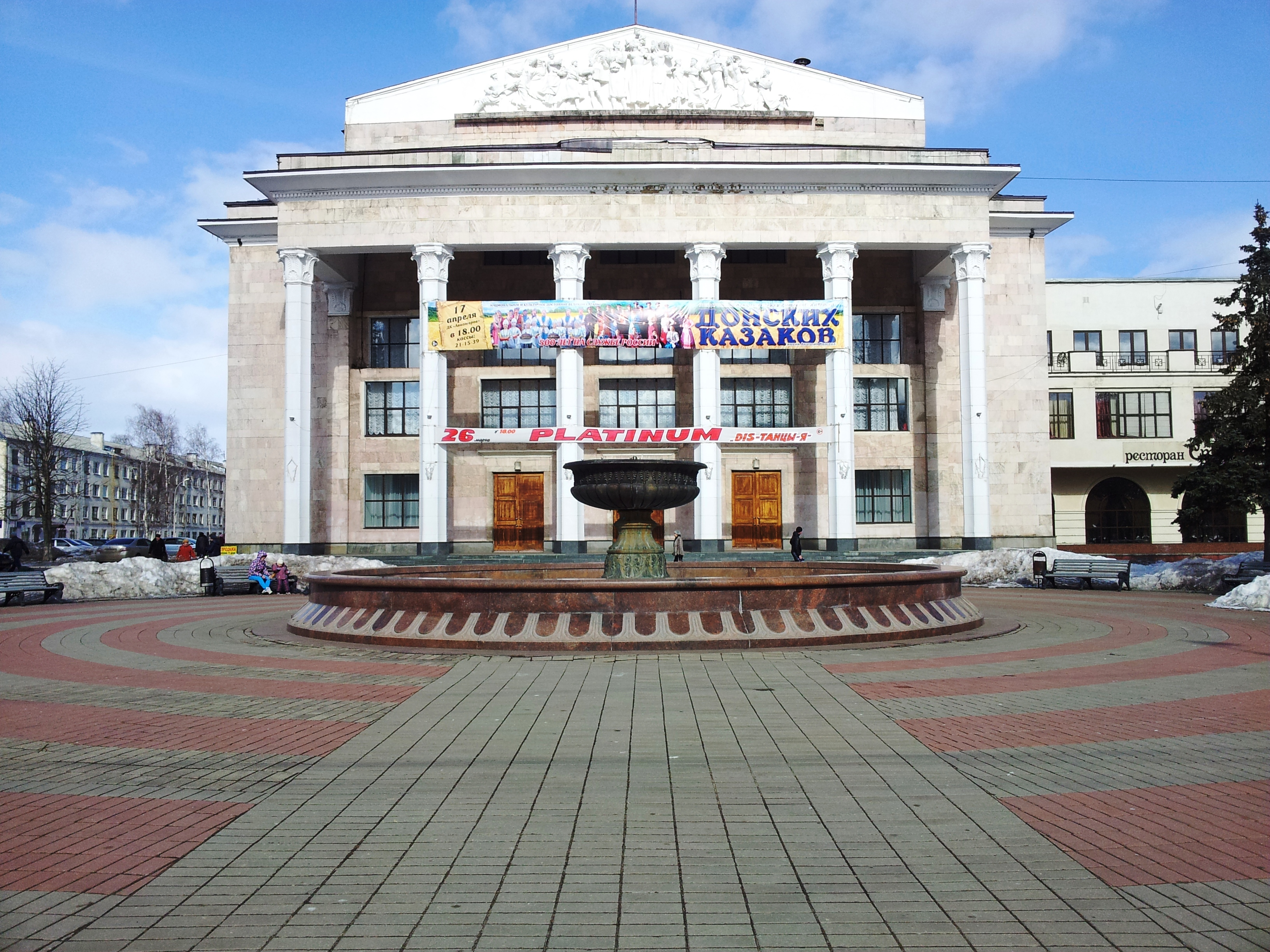 Palace of Culture "Aviator" in Rybinsk, Russia